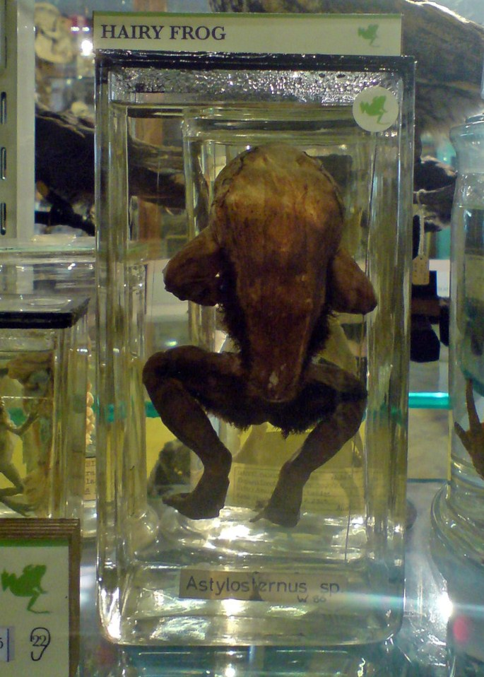 Trichobatrachus robustus in Grant Museum of Zoology in London.